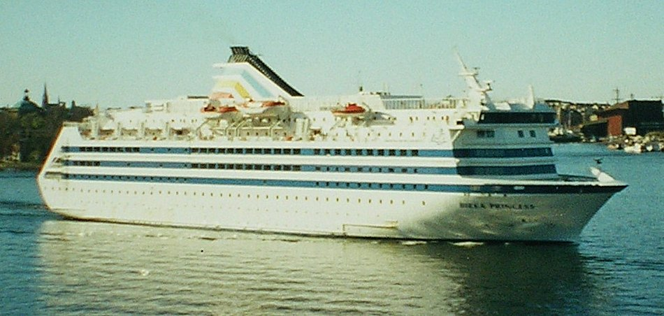 M/S Birka Princess departing Stockholm, Sweden, sometime in the mid-90's.